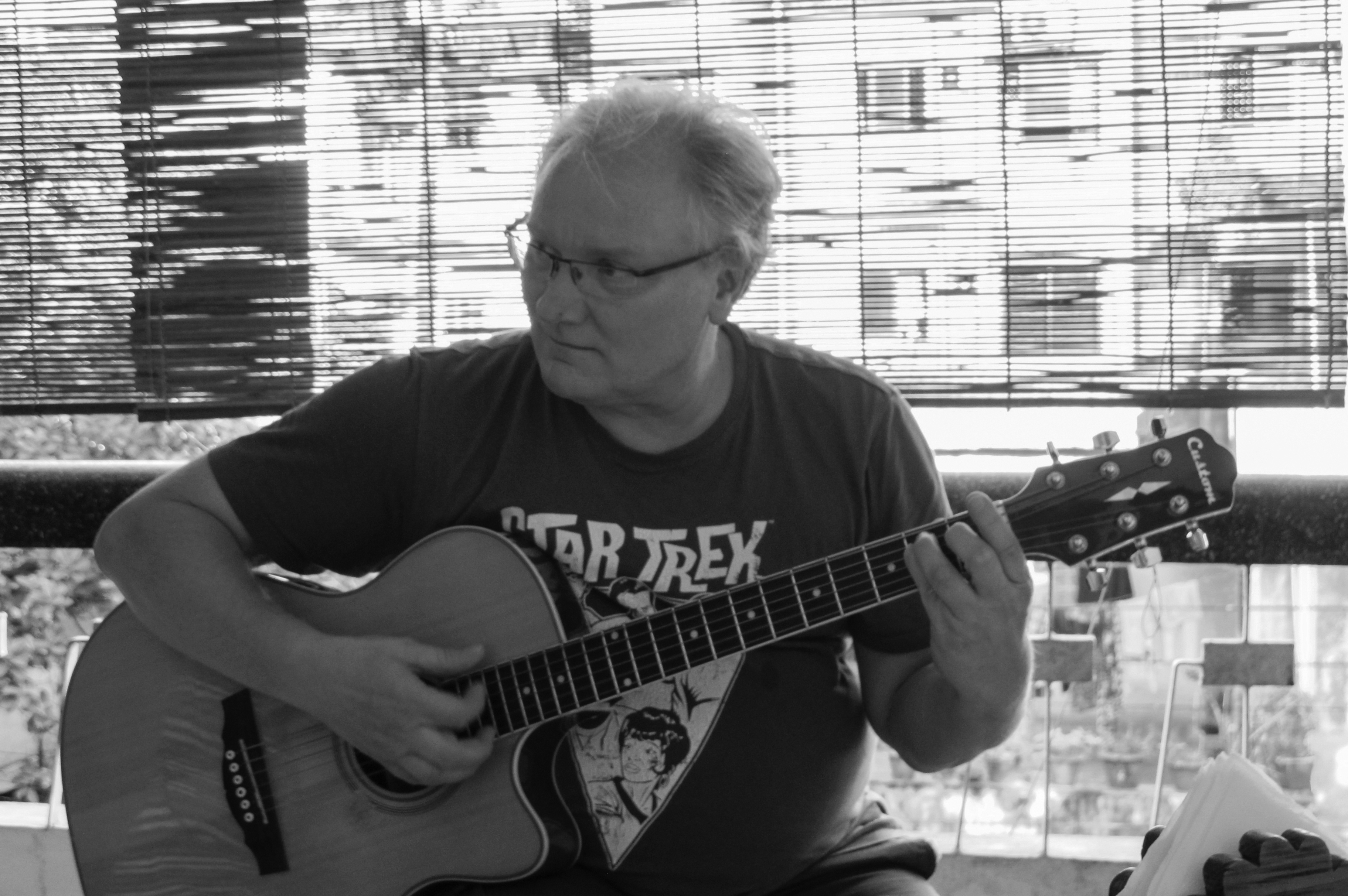 Armin Steigenberger playing guitar at Bistaar: Chittagong Arts Complex.